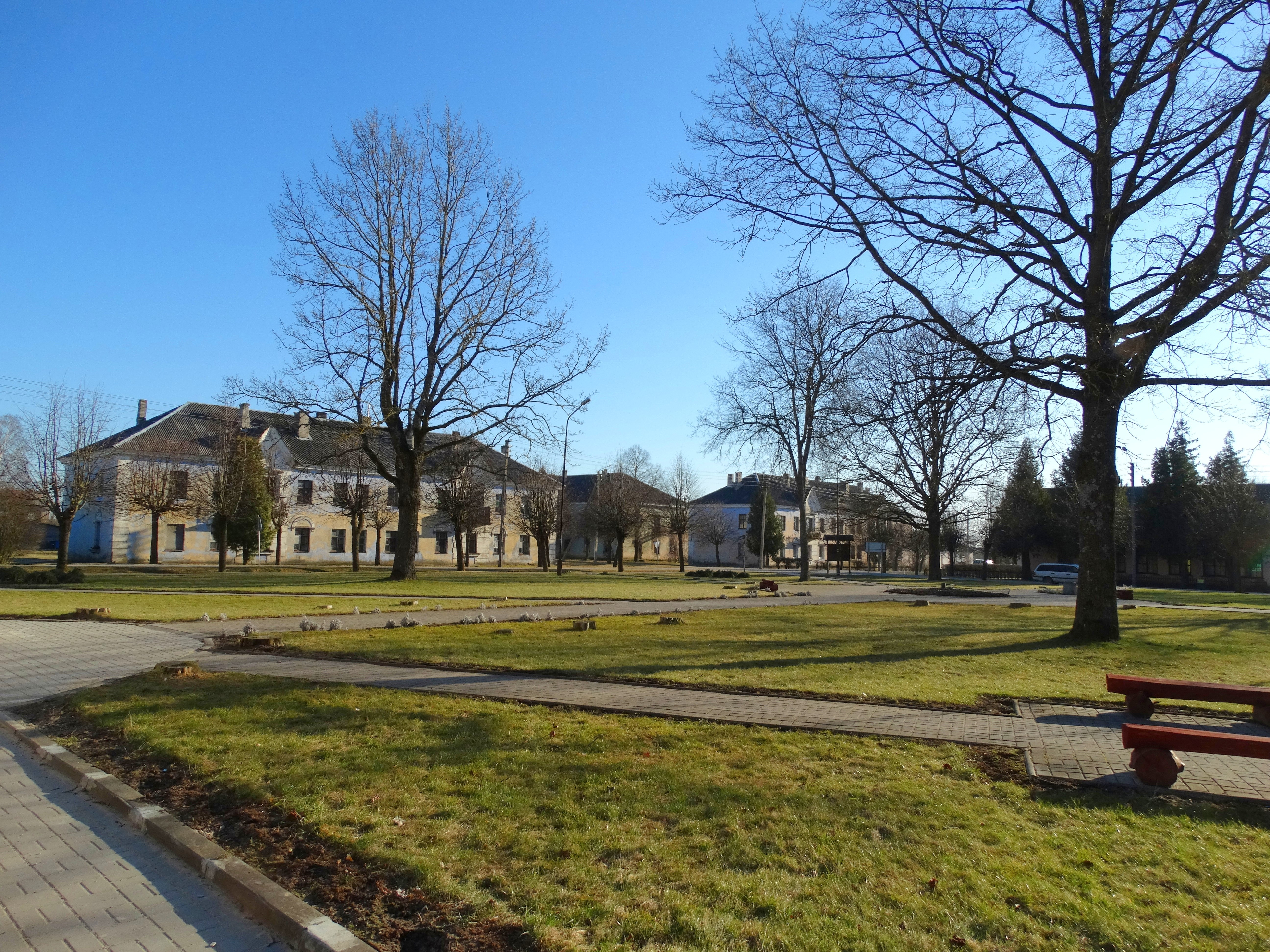 Tyruliai, Radviliškis District, Lithuania